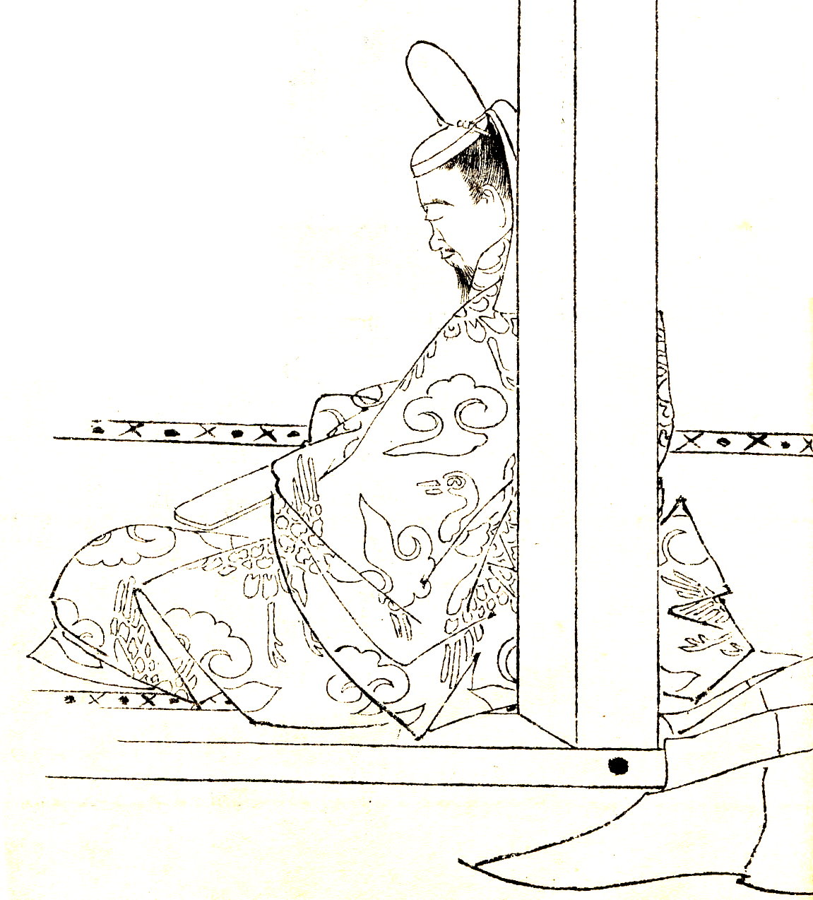 Fujiwara no Kaneie (藤原 兼家), third son of Fujiwara no Morosuke, was a kugyo of the Heian period who served as Sessho and Kampaku, regent positions.This picture was drawn by Kikuchi Yosai（菊池容斎） who was a painter in Japan.